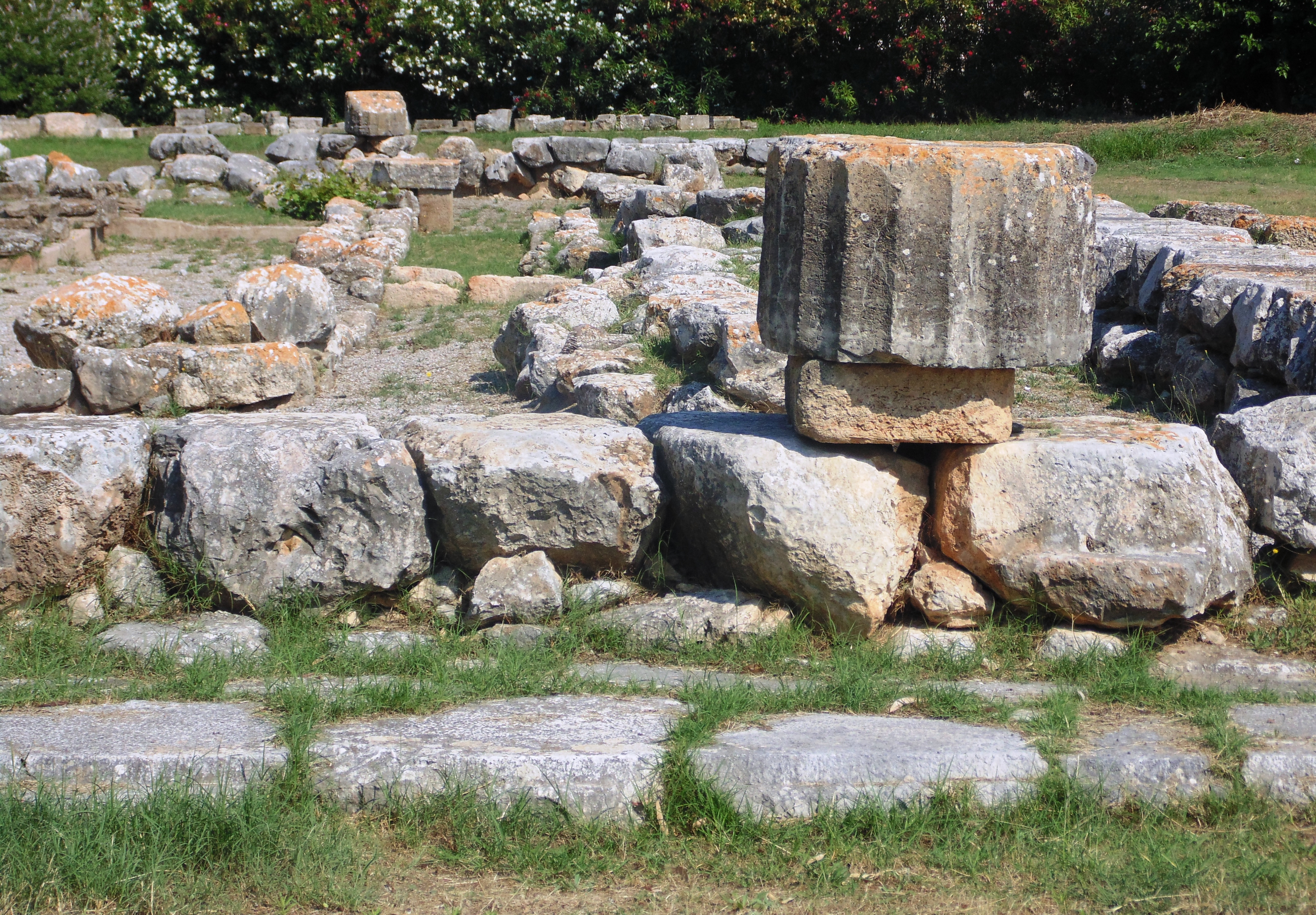 Temple of Apollo